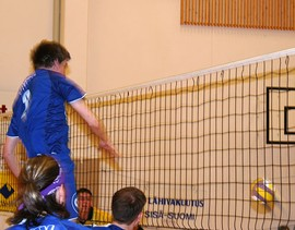 Finland volleyball player Juha Järvenpää hit in 1-division game season 2006